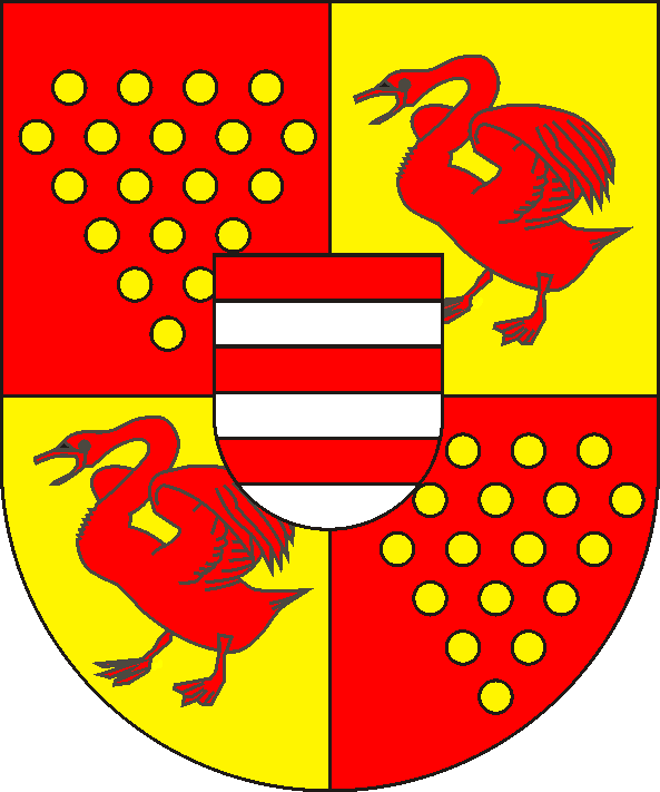 coat of arms of the counts of Bentheim (1454-1589) 1,4: county of Bentheim; 2,3: county of Steinfurt; heart: lordship of Wewelinghofen